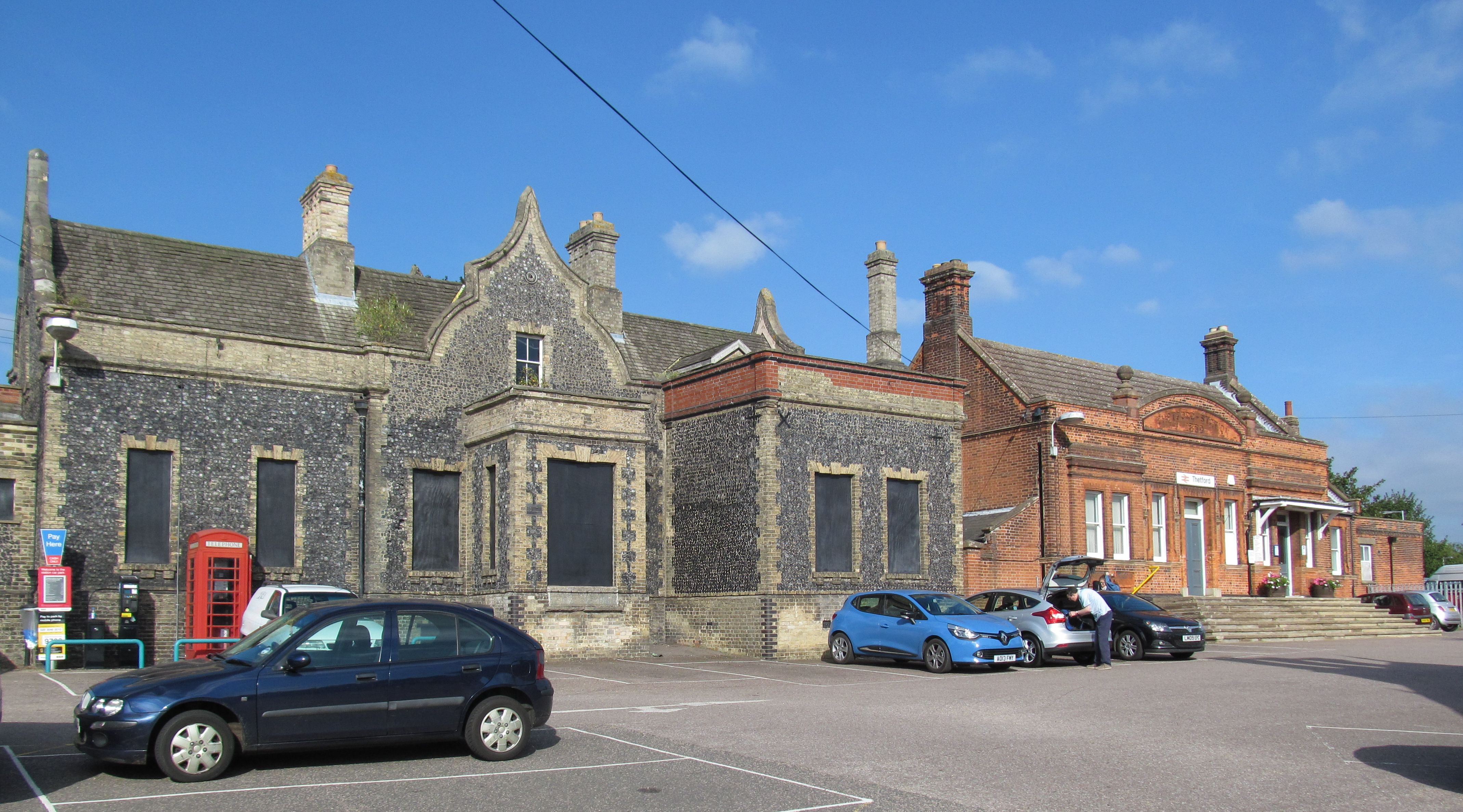 Thetford railway station buildings, as seen from the car park